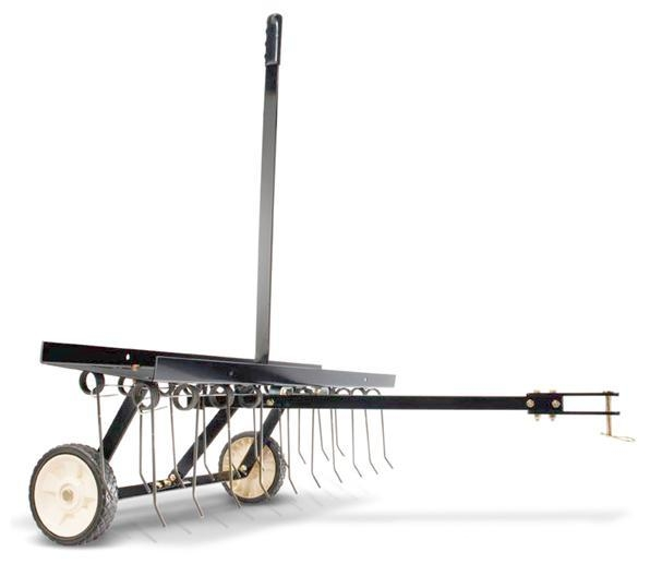 Agri-Fab tine dethatcher